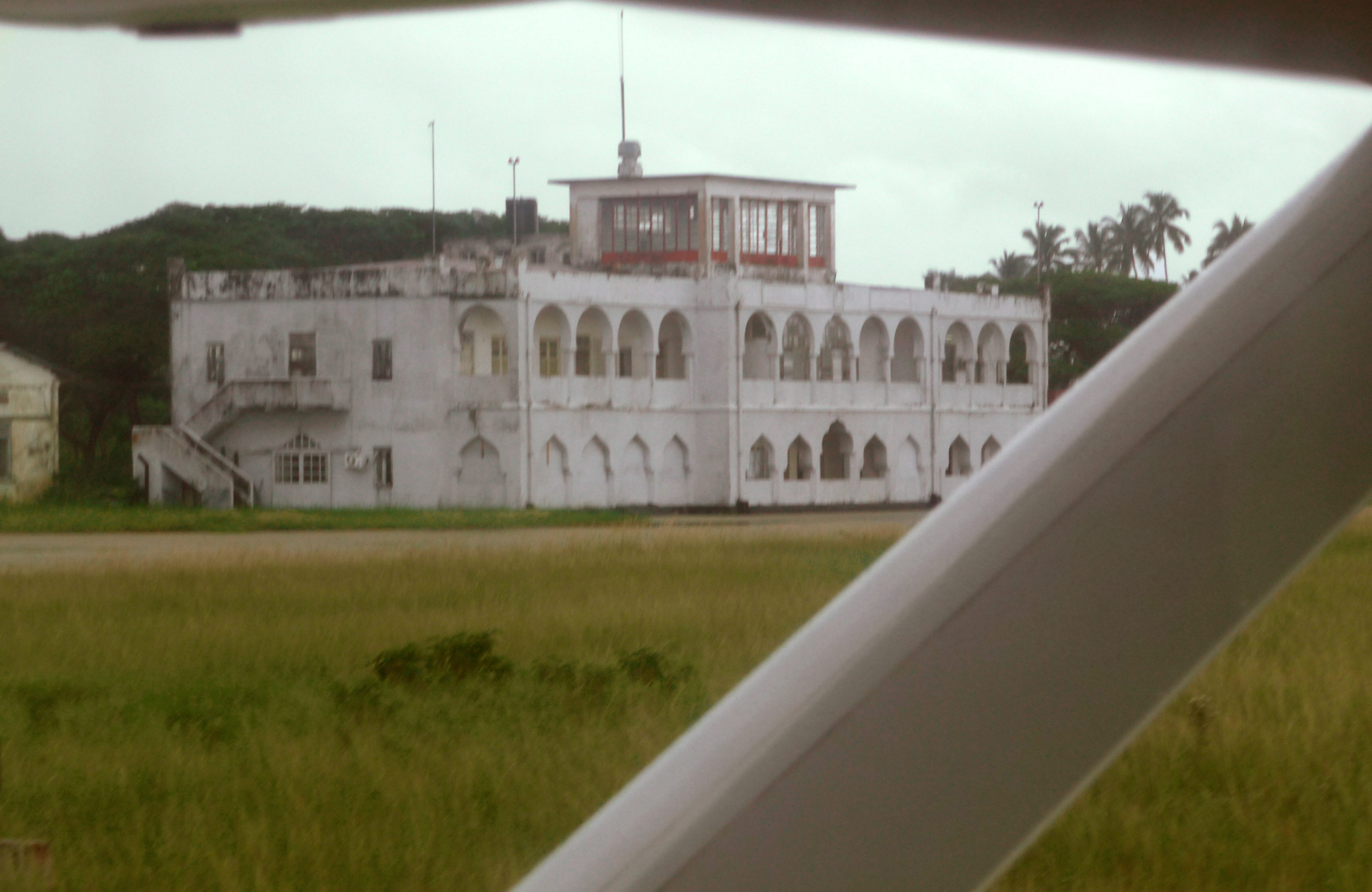 Old terminal building at Zanzibar Airport. The image was taken from the northern taxiway off the main runway.